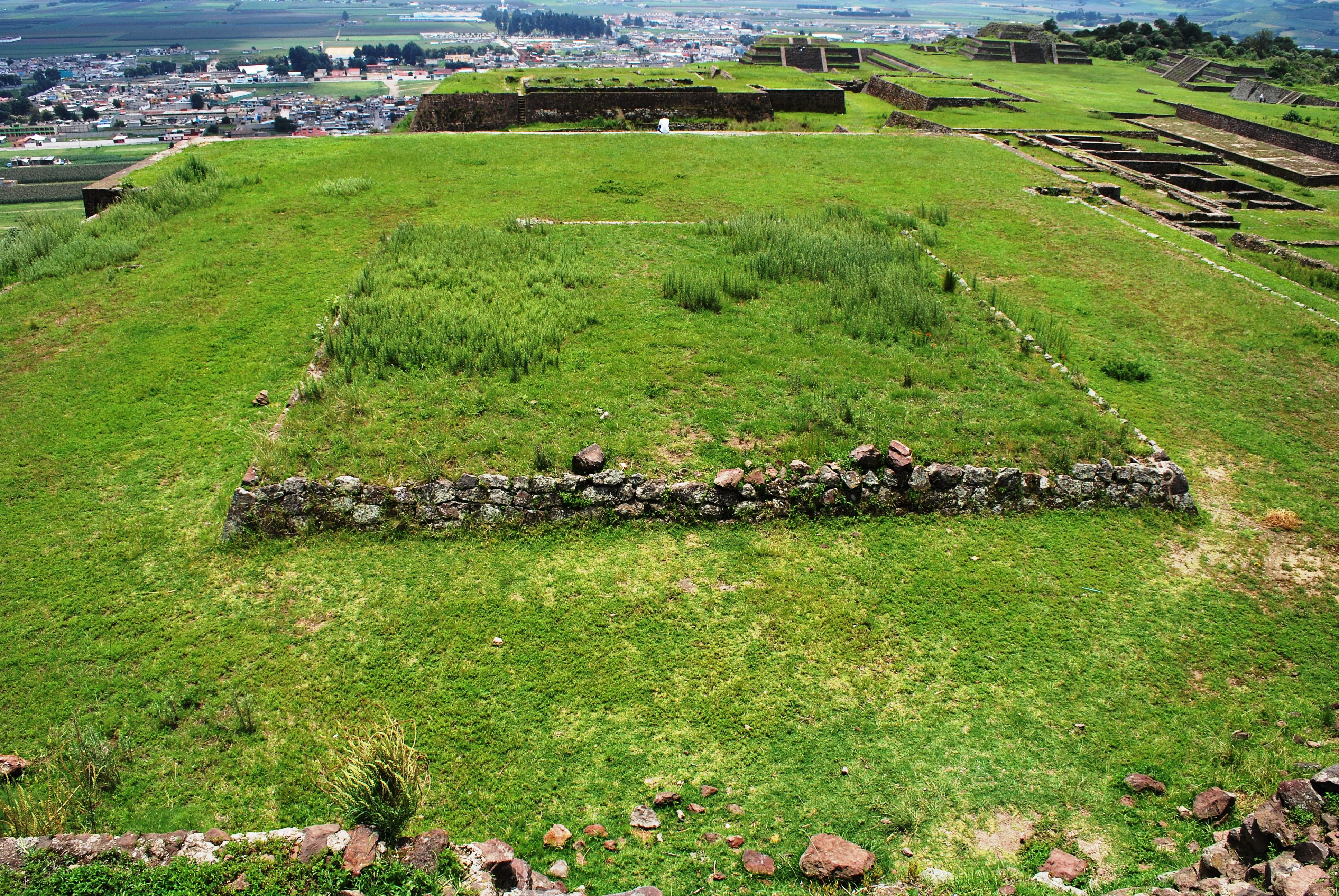 Ceremonial platform on the Pyramid de la Serpiente at Teotenango, Tenango del Valle, Mexico State